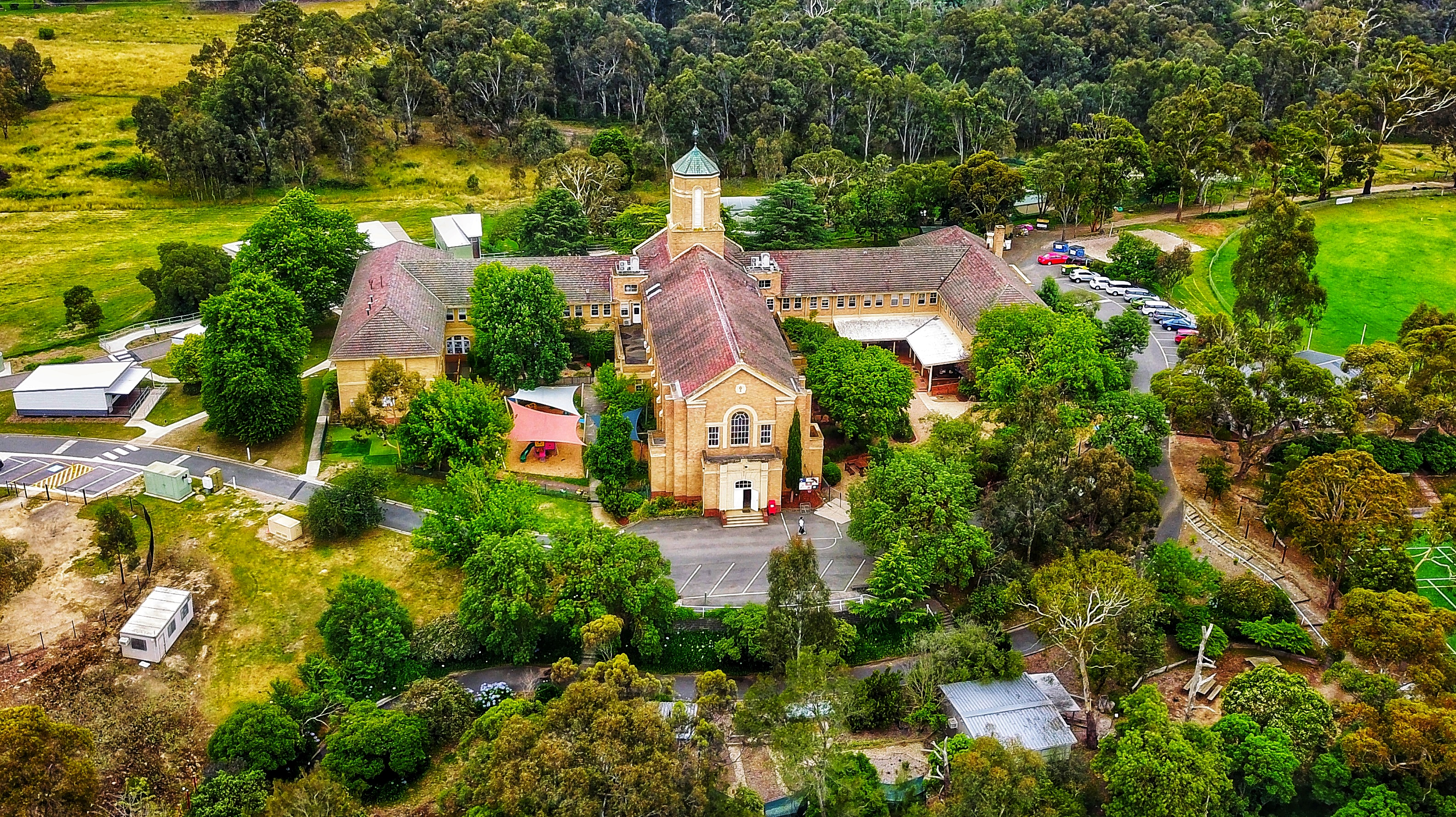 Aerial perspective of Odyssey House along the Yarra Main Trail. Shot with the DJI Mavic Pro. December 2018.